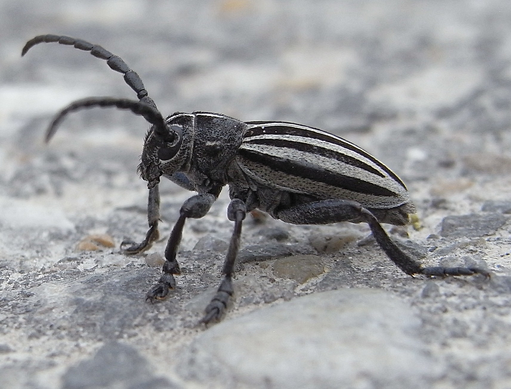 Pedestredorcadion scopolii from Hungary at 2010-05-09 near the border to Kroatia and Serbia Ricoh R8